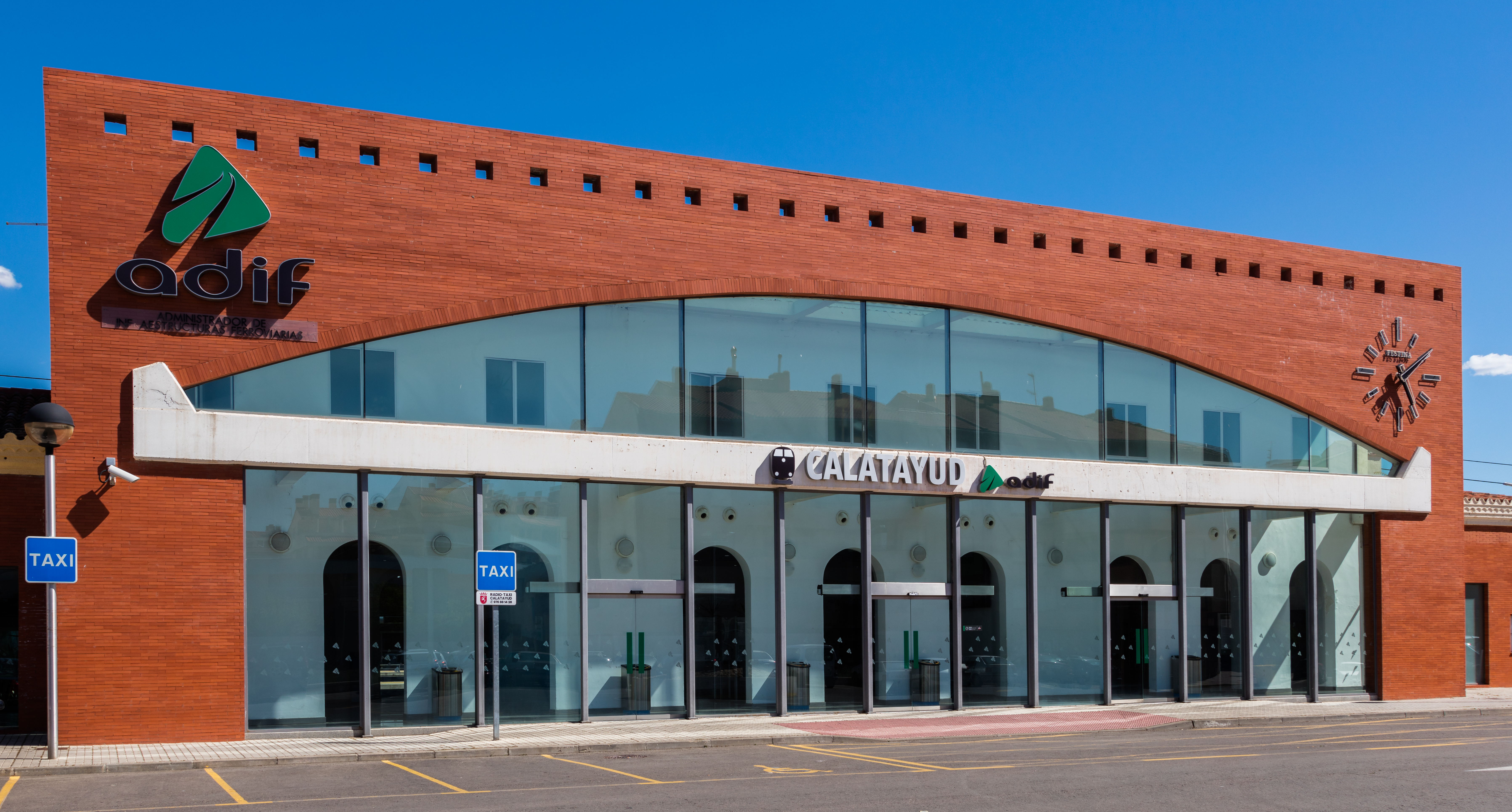 AVE railway station, Calatayud, Spain.